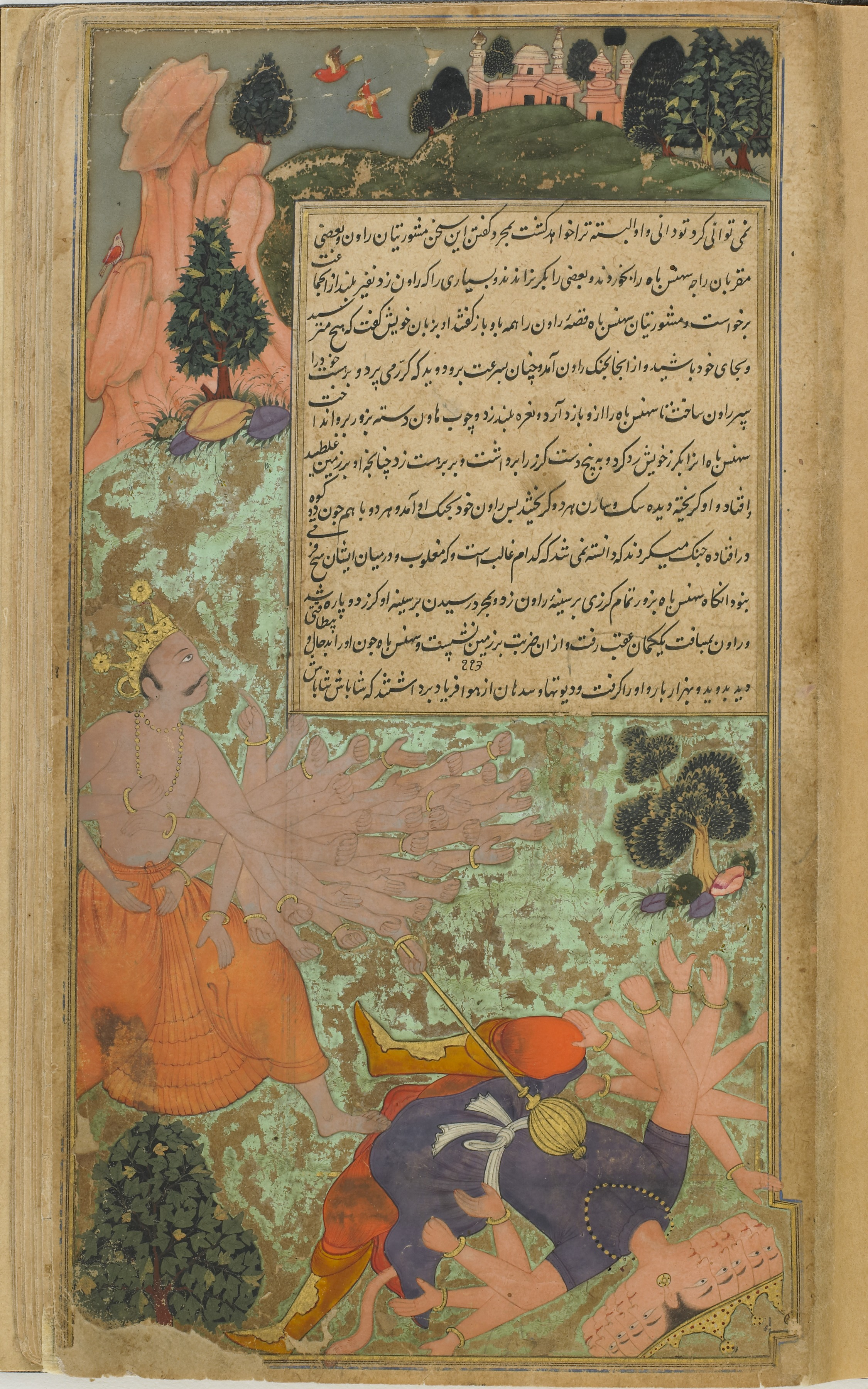 Folio from the Ramayana of Valmiki (The Freer Ramayana), Vol. 2, folio 301; recto: Arjuna fells Ravana with his mace and advances to capture him with his thousand arms; verso: text 1597-1605 Fazl , (Indian, Indian) Mughal dynasty Opaque watercolor, ink, and gold on paper H: 27.5 W: 15.2 cm Northern India Gift of Charles Lang Freer F1907.271.301